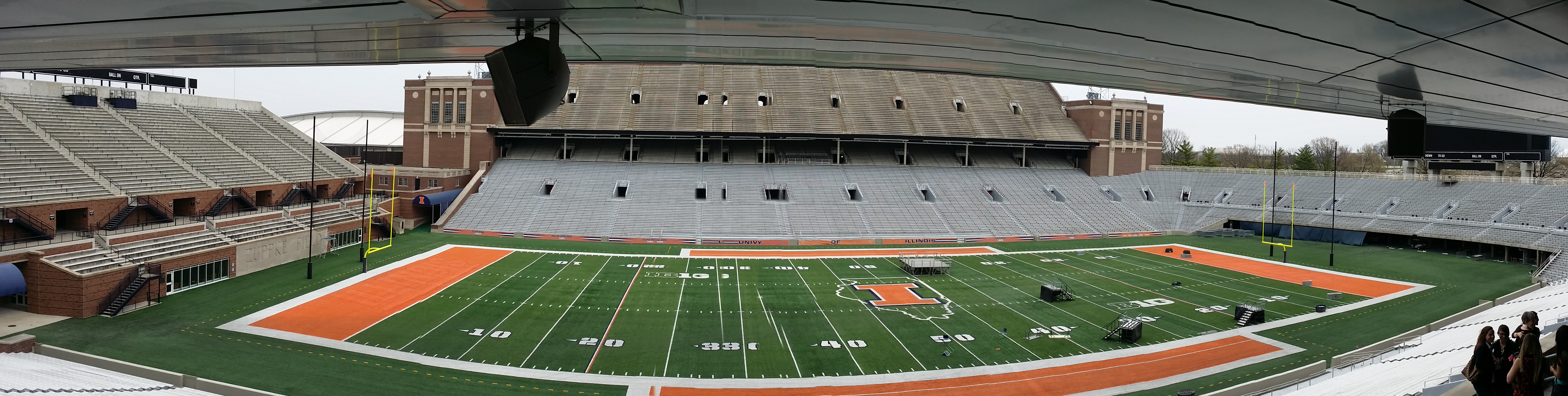 Panorama of Memorial Stadium in Champaign, Illinois